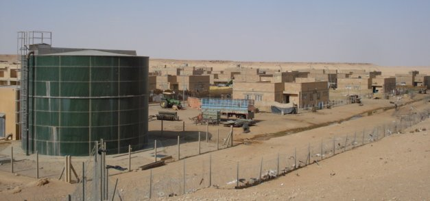 Village of Sikak in Akashat township in Iraq near the railroad terminal